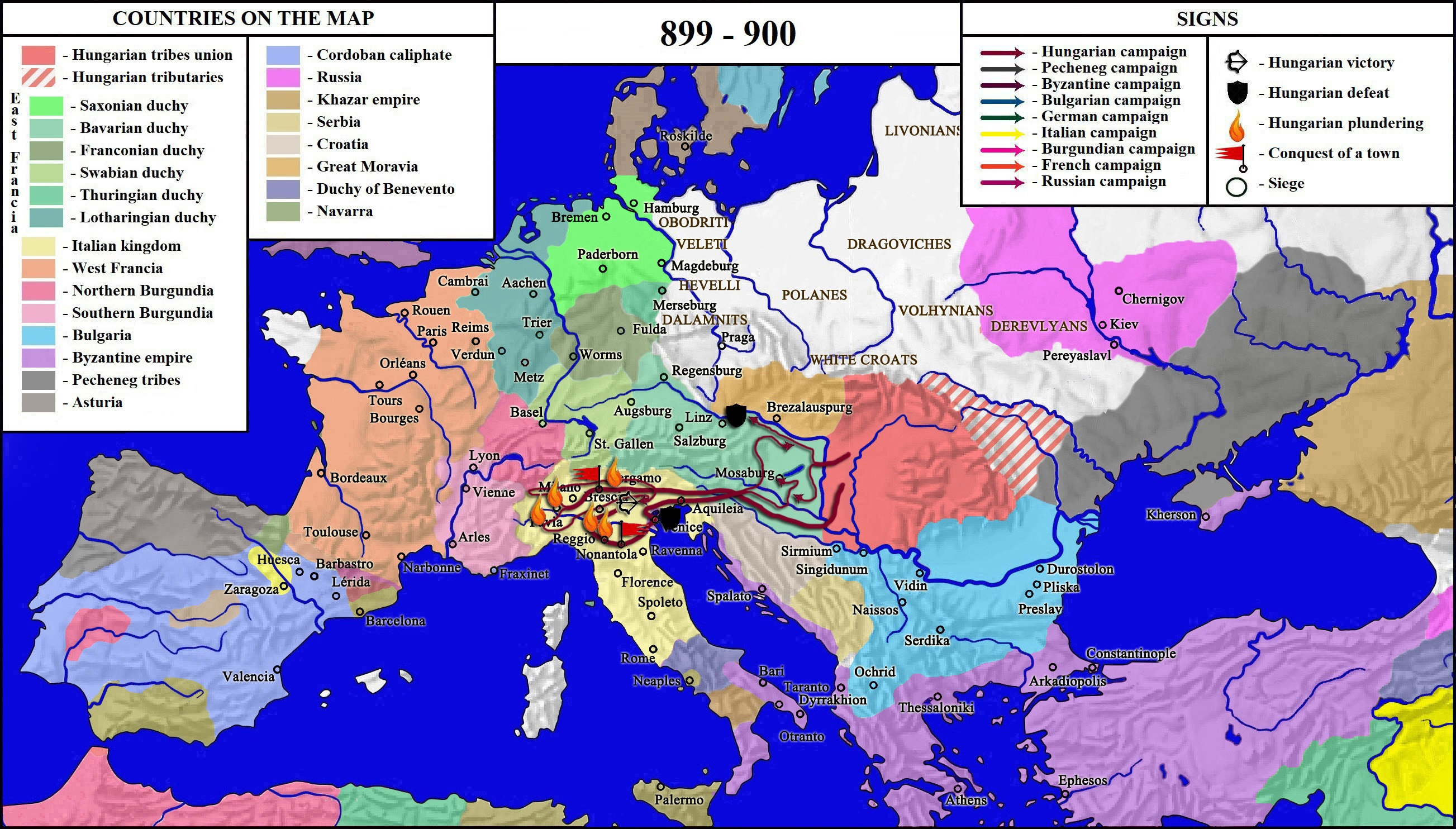 The Hungarian campaigns of 899-900